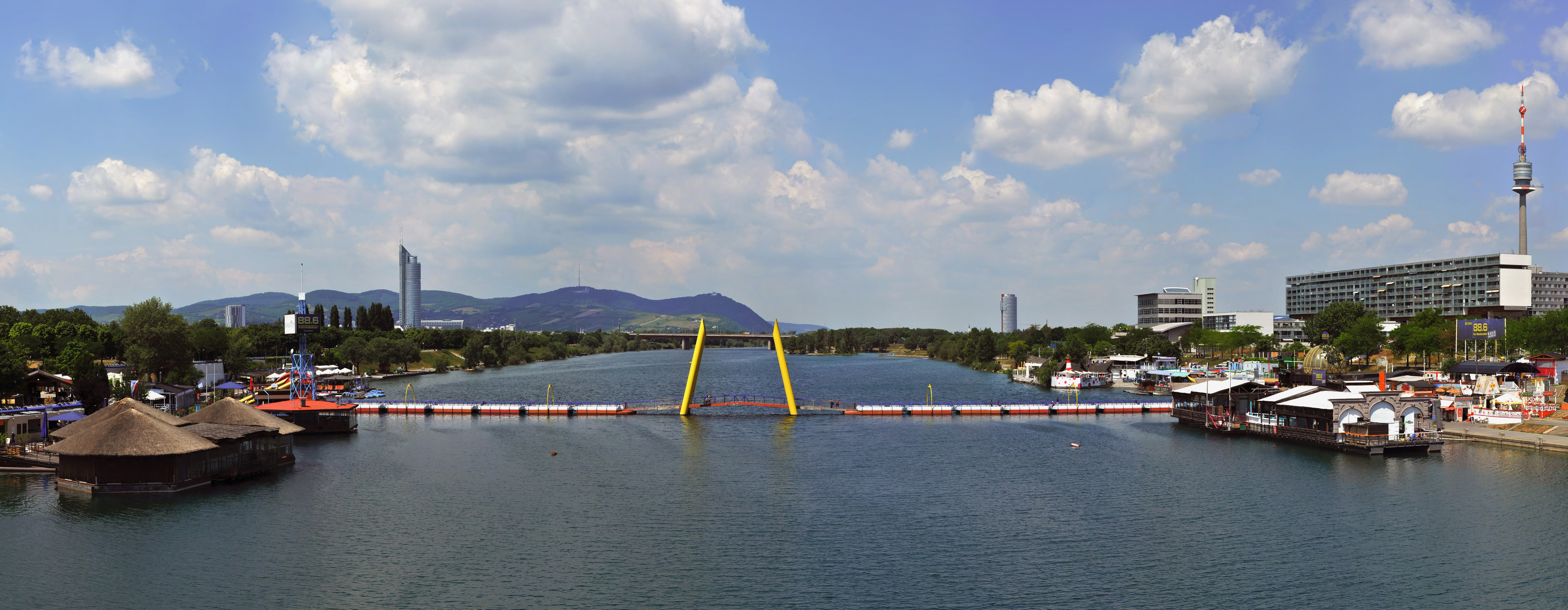 View in Vienna from the bridge Reichsbrücke over the River New Danube towards the footbridge Ponte Cagrana and to the hill range Vienna Woods in Austria.